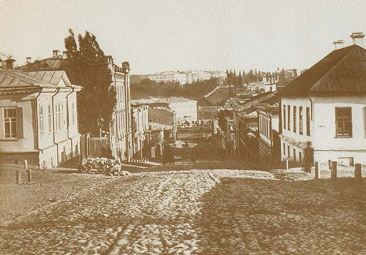 Kiev Sophievskaya street